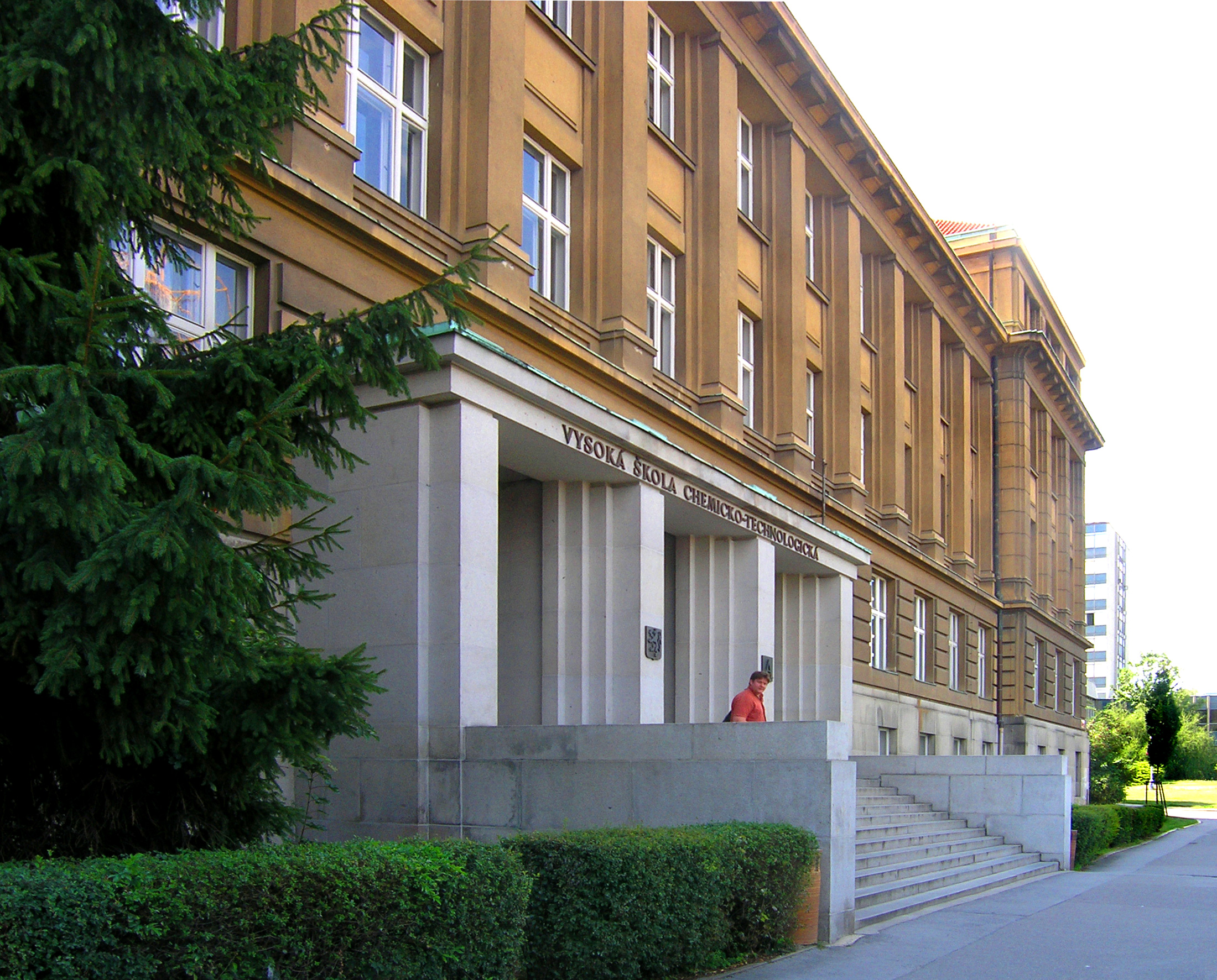 Institute of Chemical Technology at Technická street at Dejvice, Prague